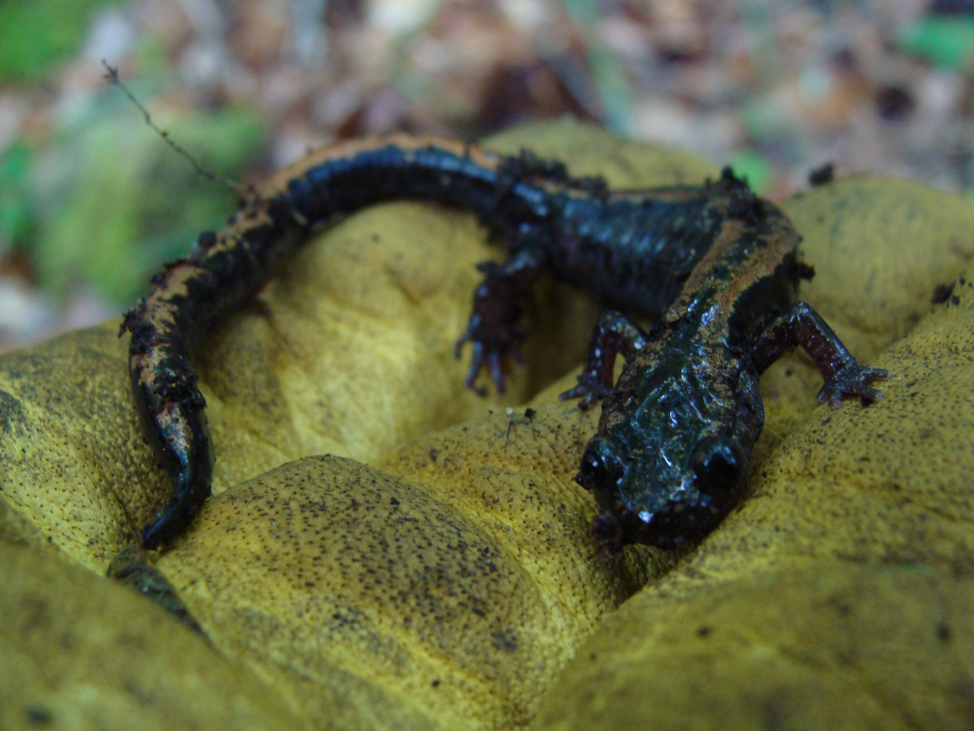 Chioglossa lusitanica in the Peneda-Gerês National Park, Portugal.